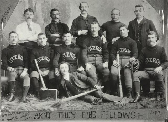 The inaugural 1889 Fitzroy Baseball Club team